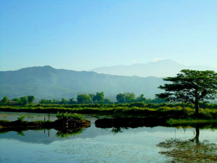 San Roque West fish ponds at Sitio Banaoang (Agoo municipality, La Union, Philippines)